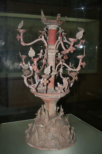 A Chinese Eastern Han Dynasty (25–220 AD) ceramic, grounded candelabra with animal figurines.